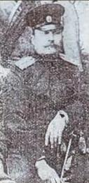 Serbian Chetnik Borko Paštrović, photo taken during his Balkan War service in the Serbian army